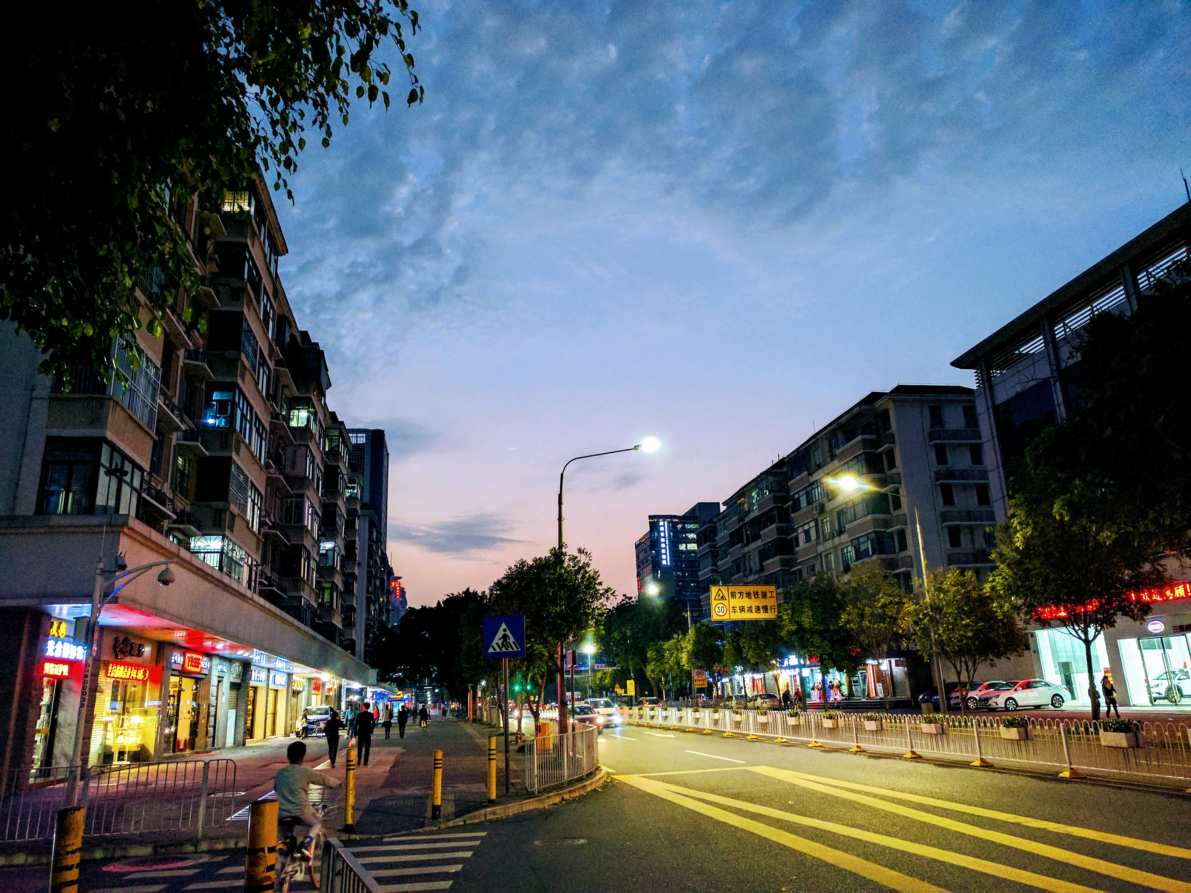 Night at Hongli Road Shenzhen